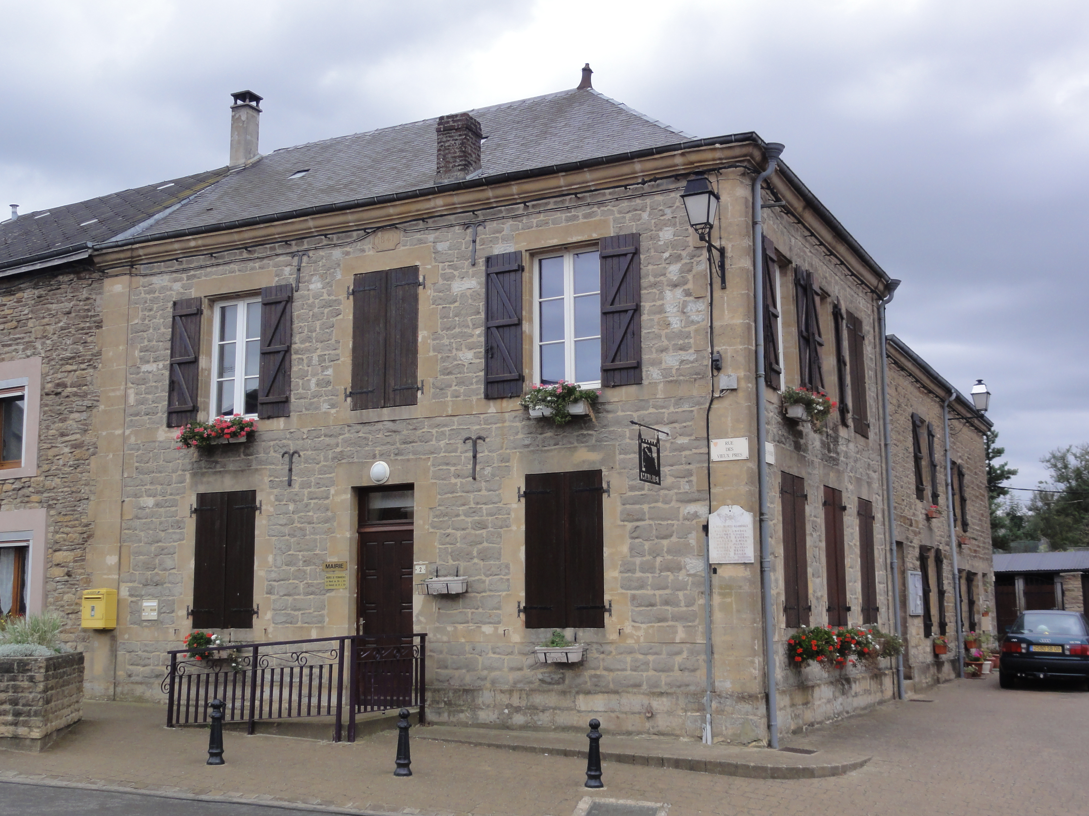 Montcornet (Ardennes) mairie